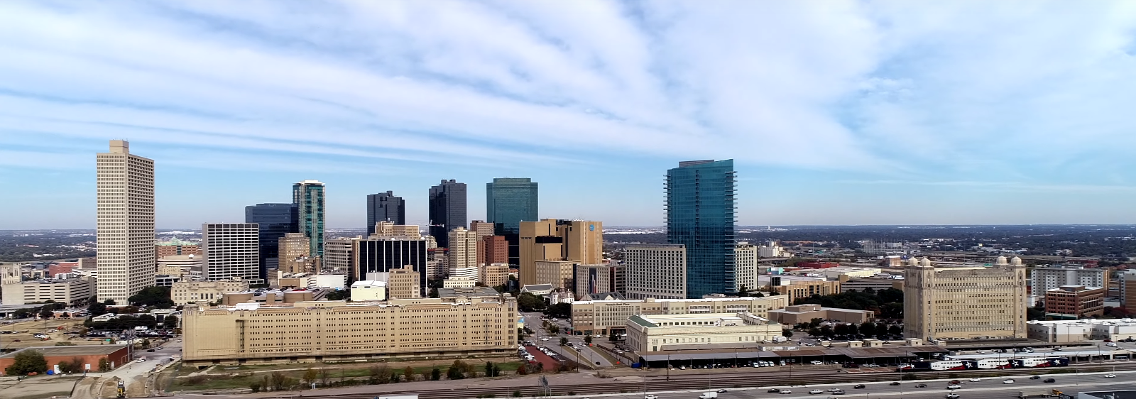 This is Downtown Fort Worth, taken in 2020.